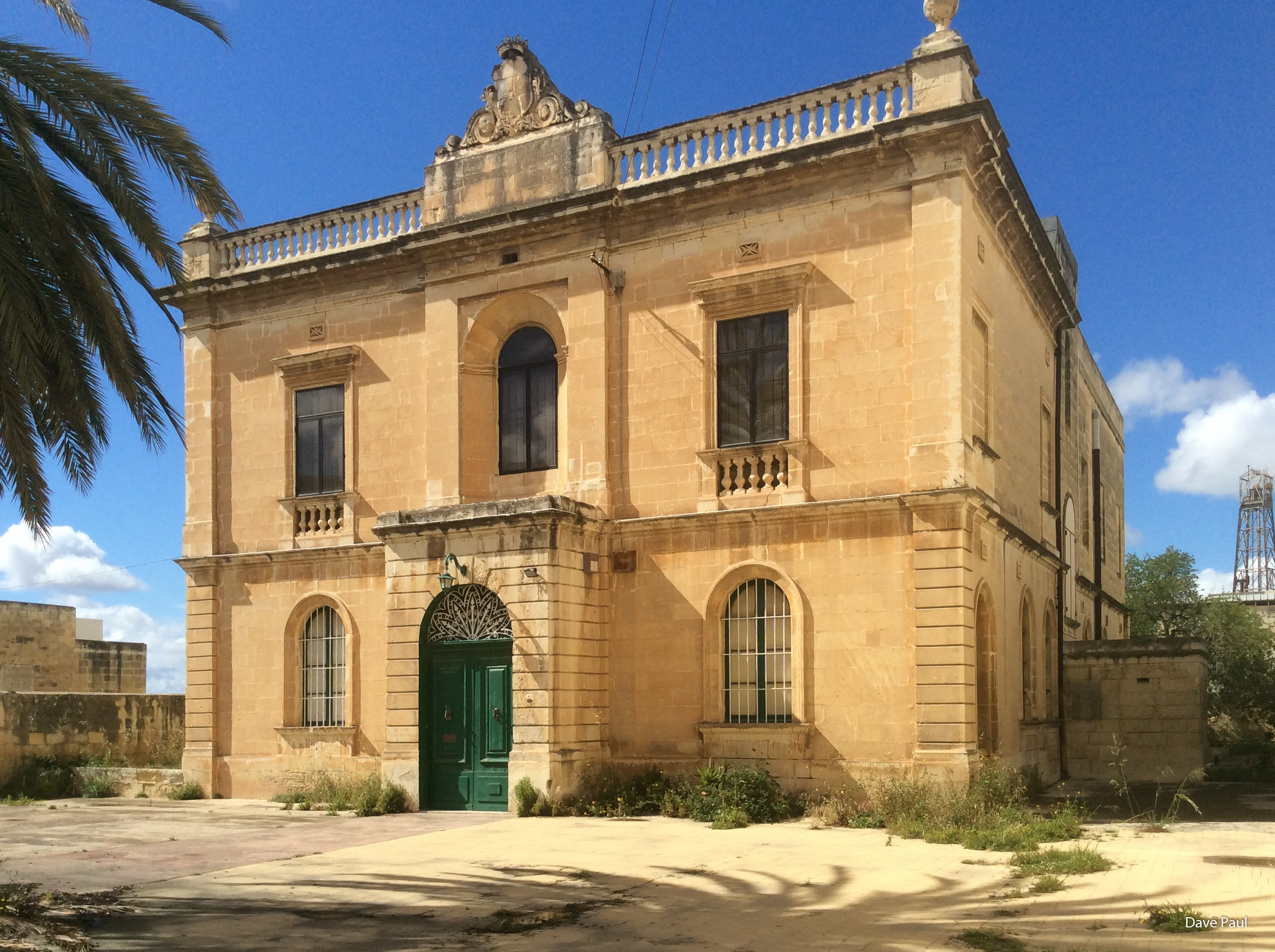 Villa Blye, Masonic Temple, Masonic Lodge, Papla Malta